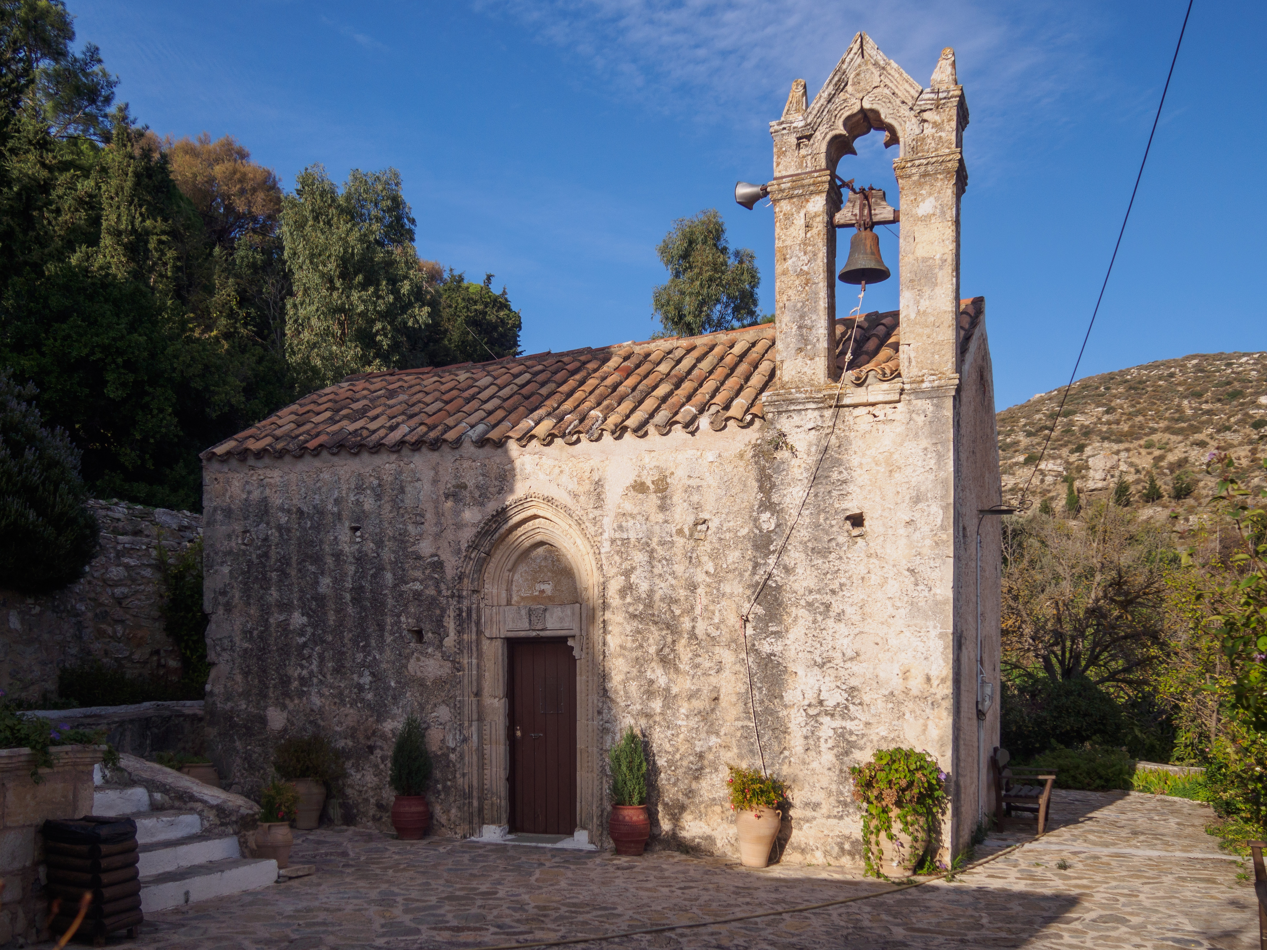 The church of Mary in Kapetaniana, dating from 1401, according to an inscription in its interior.